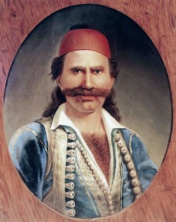 Odysseas Androutsos (1790-1825) Painting by Dionysios Tsokos. National Historical Museum, Athens.